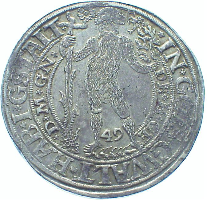 Germany, Principality of Lüneburg, Henry the Younger as prince 1514-1568. Ag 1 Thaler 1549, reverse: Wild Man, 49 in field, outer circumscr.: IN• GOTS GWALT• HAB I[ch]• GSTALT, inner: DE[r]• H[at's]• GE[fügt]• D[ass]• M[ir's]• GN[ügt]•) Welter 391.